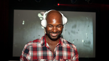 THIS IMAGE IS FOR AN UNIQUE ARTICLE ...